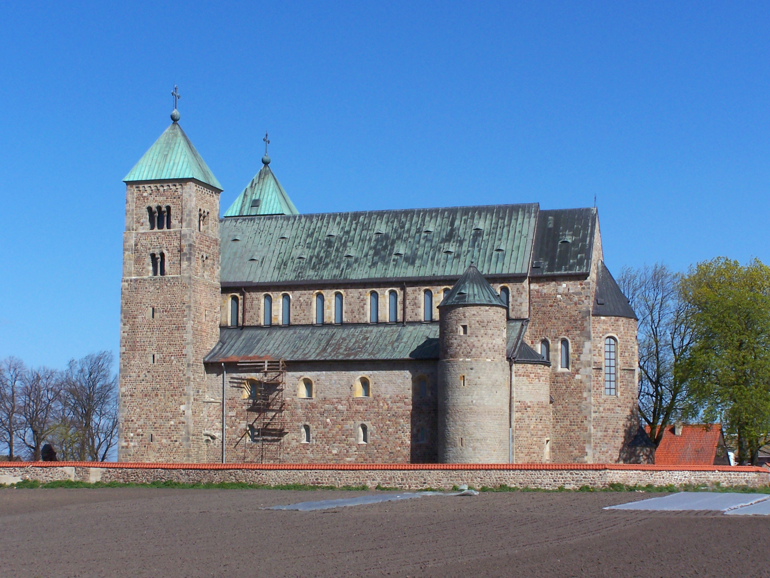 Romanesque collegiate church in Tum (Poland).